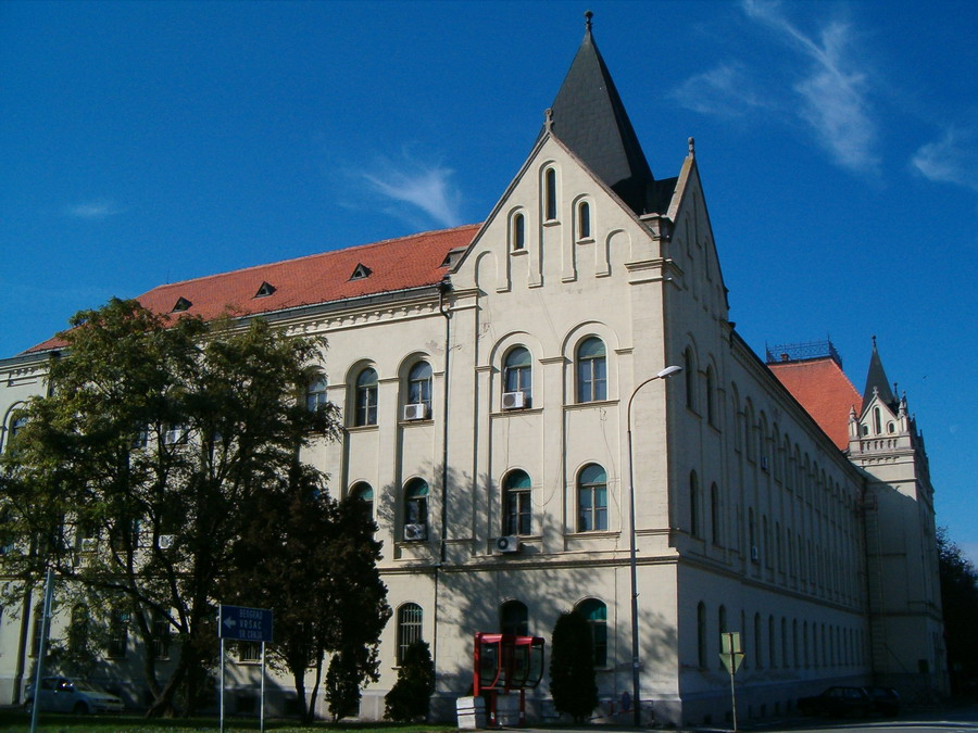 Coupola of Court House in Zrenjanin